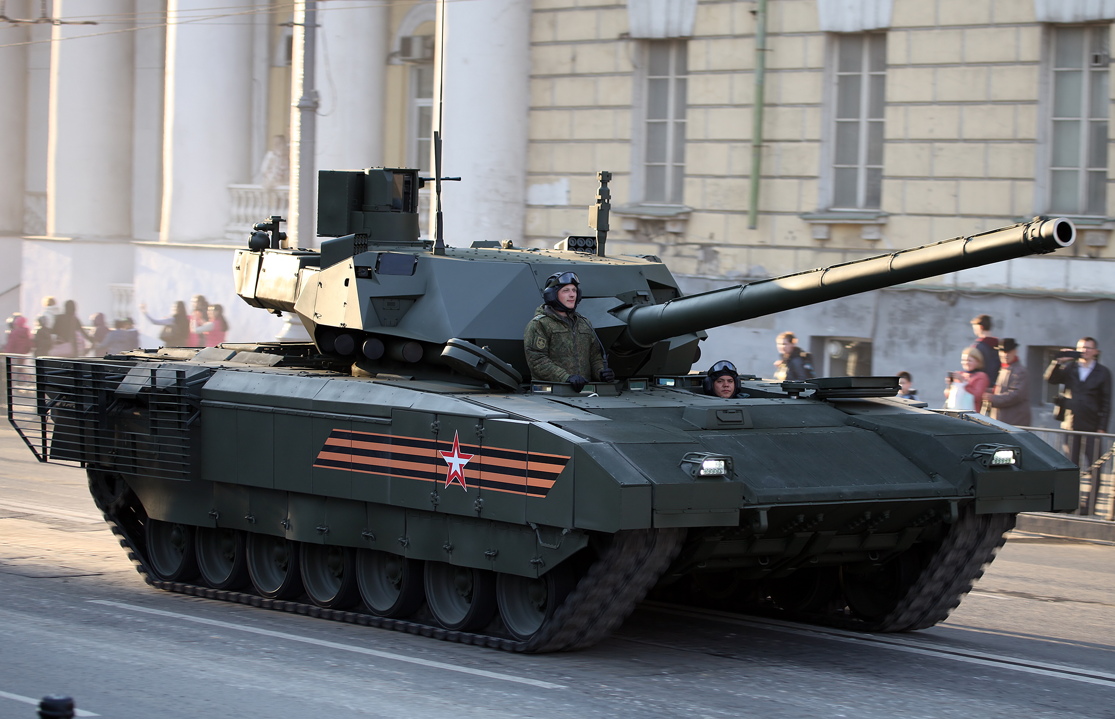 Main battle tank T-14 object 148 on heavy unified tracked platform Armata